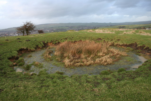 Castercliff Camp Hillfort One of the many bell pit circles on top of the fort